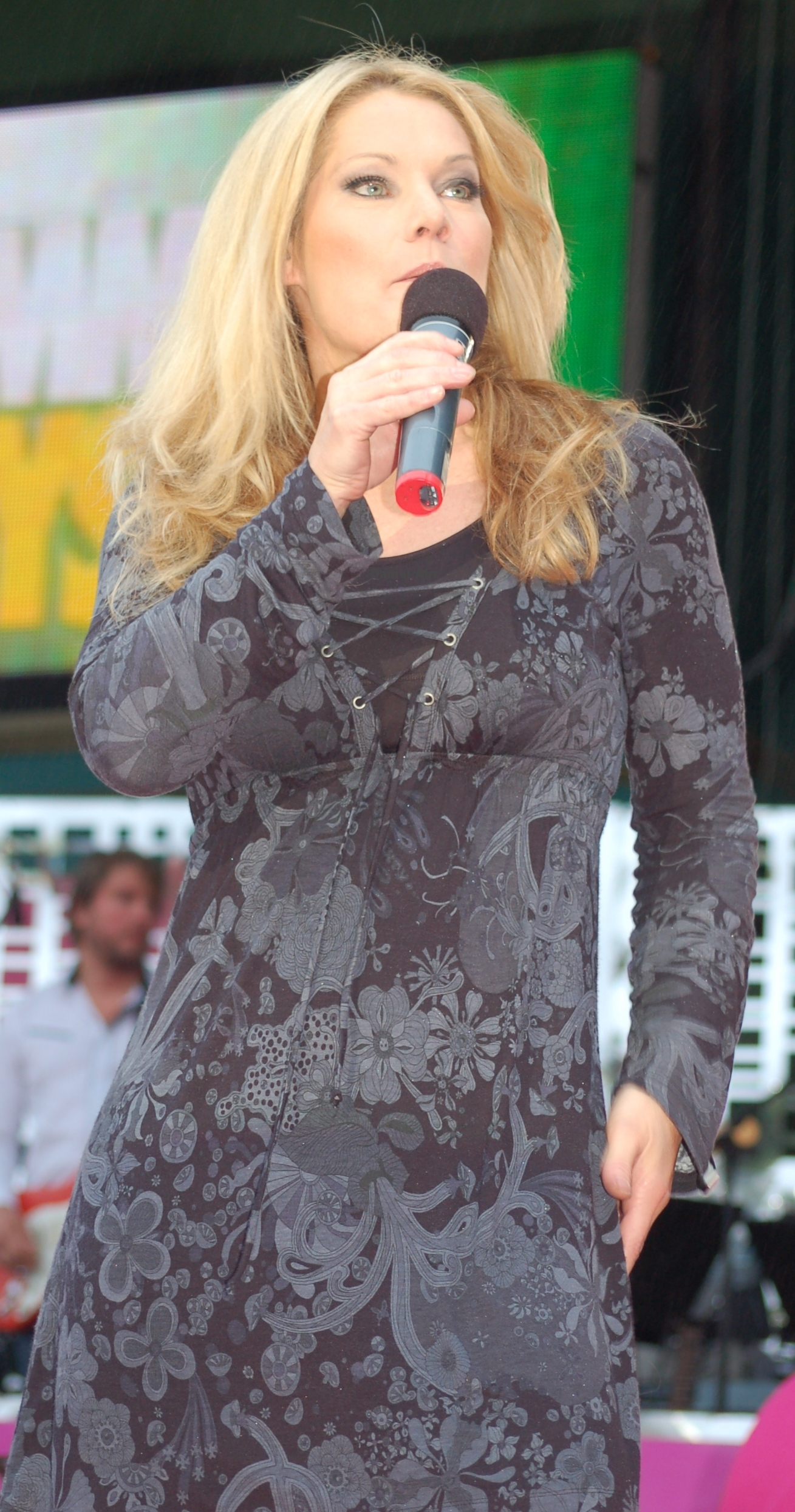 Ankie Bagger at Gröna Lund, Sommarkrysset